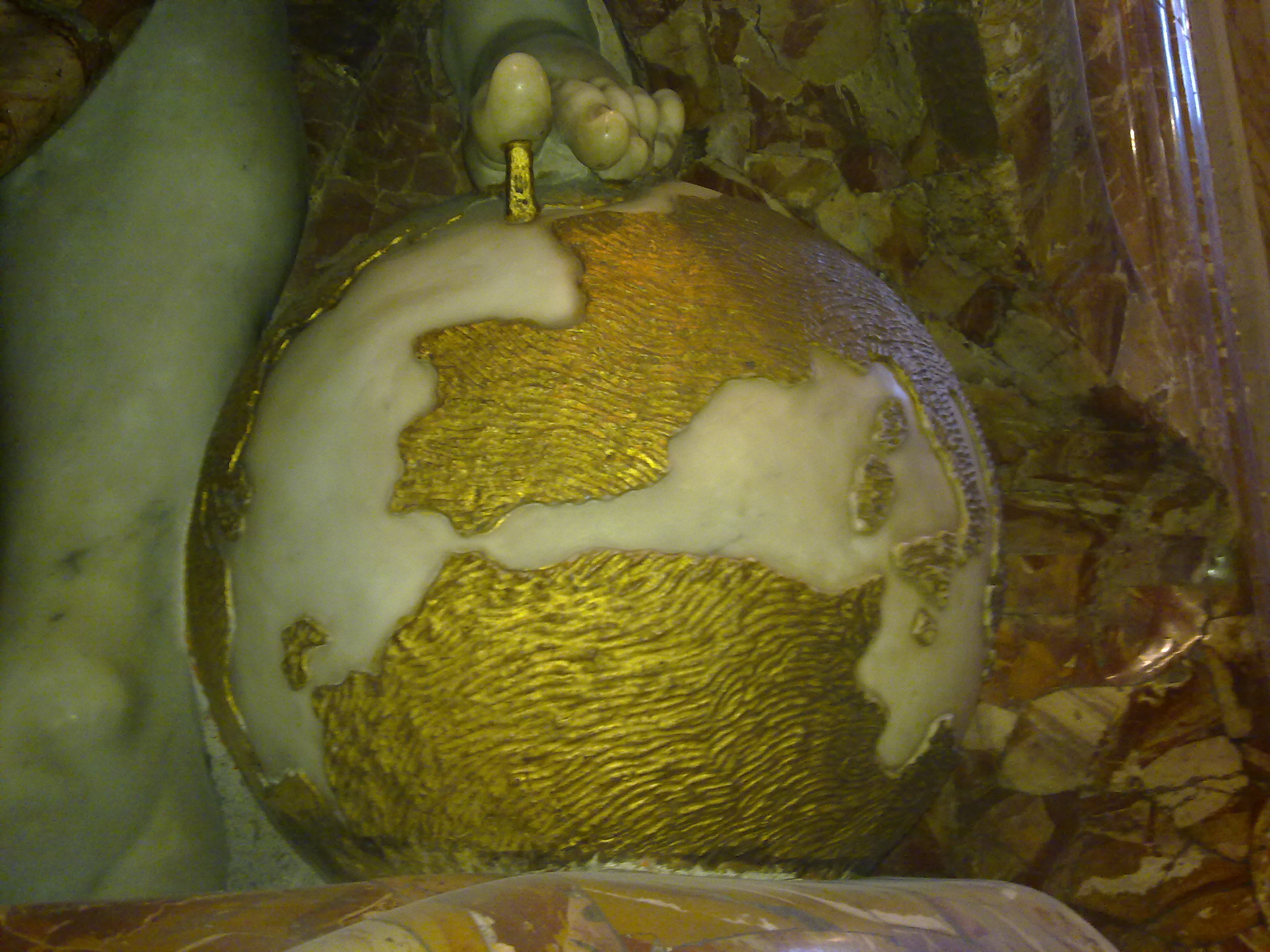 Detail of the tomb of Alexander VII. Truth's foot rests on a globe, with the big toe apparently stung by a thorn, in correspondence of England, home of Anglicanism.